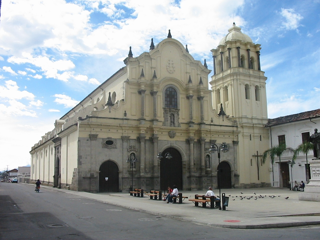 Saint Francisco´s church Plaza in Popayán